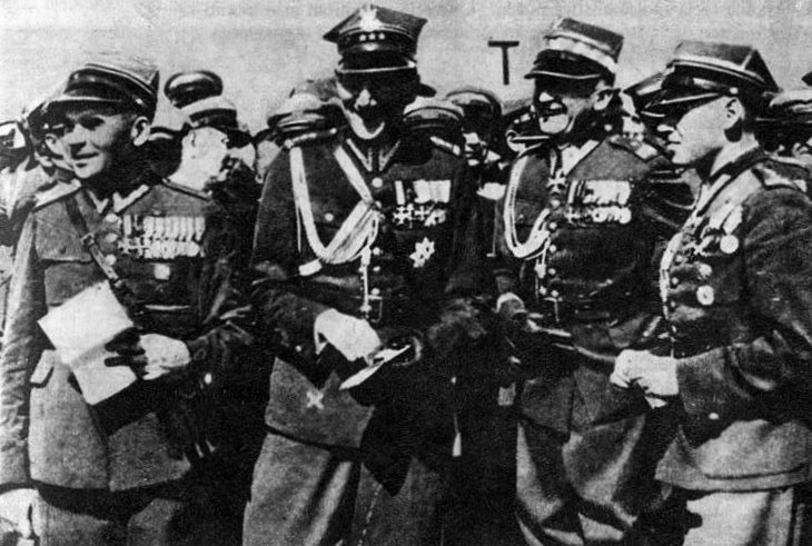 Gen. Bolesław Wieniawa-Długoszowski (2nd from the right) with Col. Józef Beck (2nd left) during the Legionnaires' meeting in Kraków; 1930s